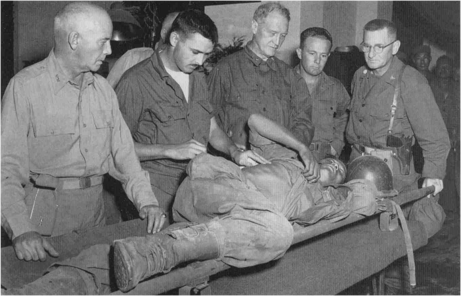 September 1950. Major General Raymond W. Bliss, the Surgeon General, is at left